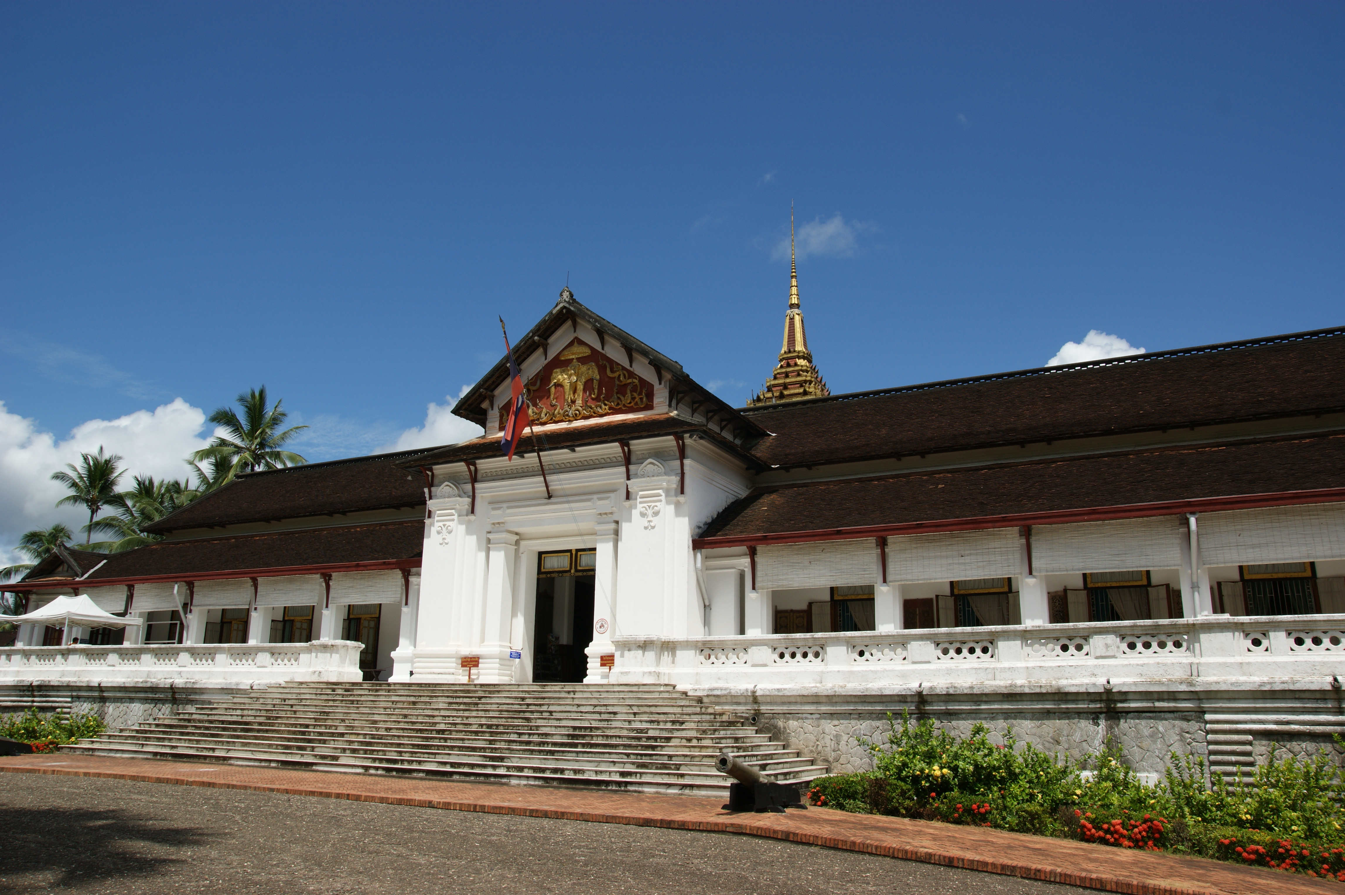 The "Haw Kham" or Laotian royal palace at Luang Prabang, Laos was constructed in 1904 during the French colonial period for the use of king Sisavang Vong and his family. When the Laotian monarchy was overthrown in 1975 by the Pathet Lao communist movement, the building was converted into a museum.